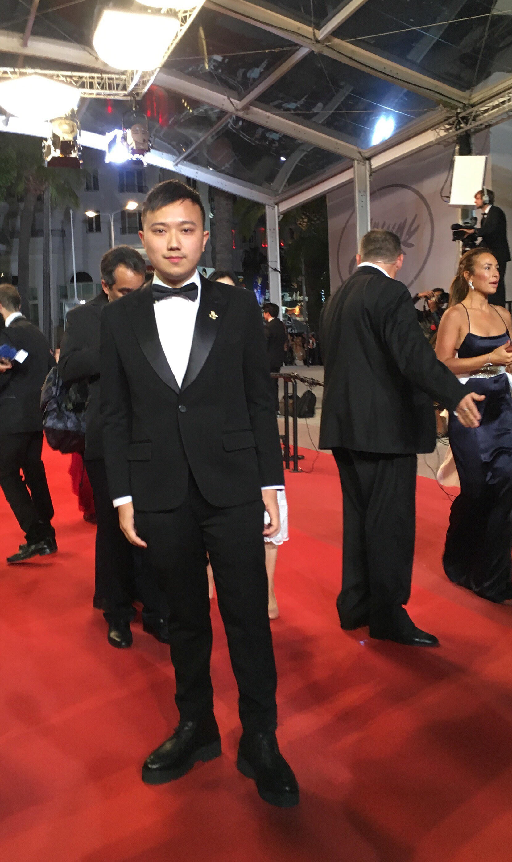 Tony Zeng (70th Cannes film festival)